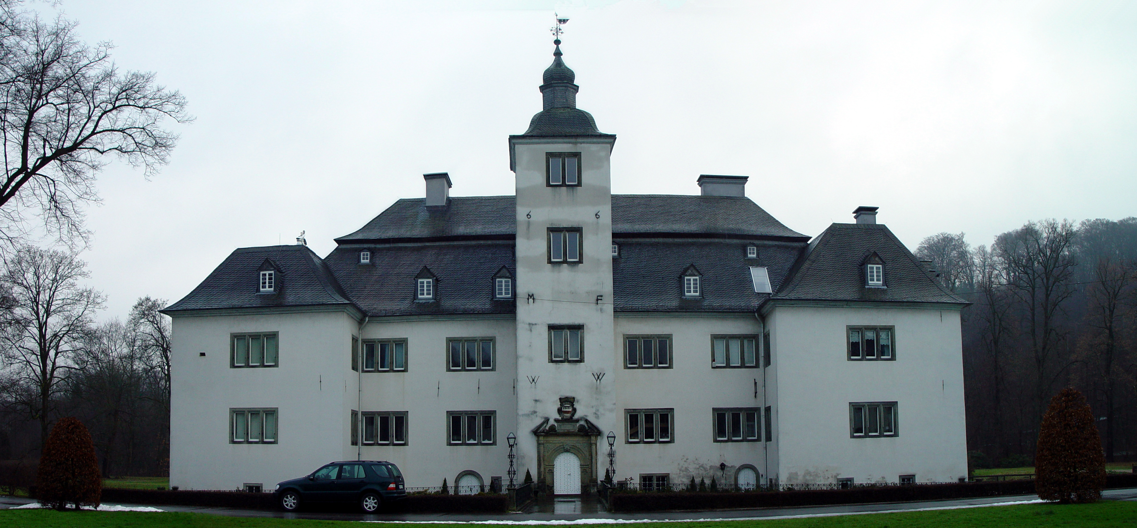 Castle Laer in Meschede